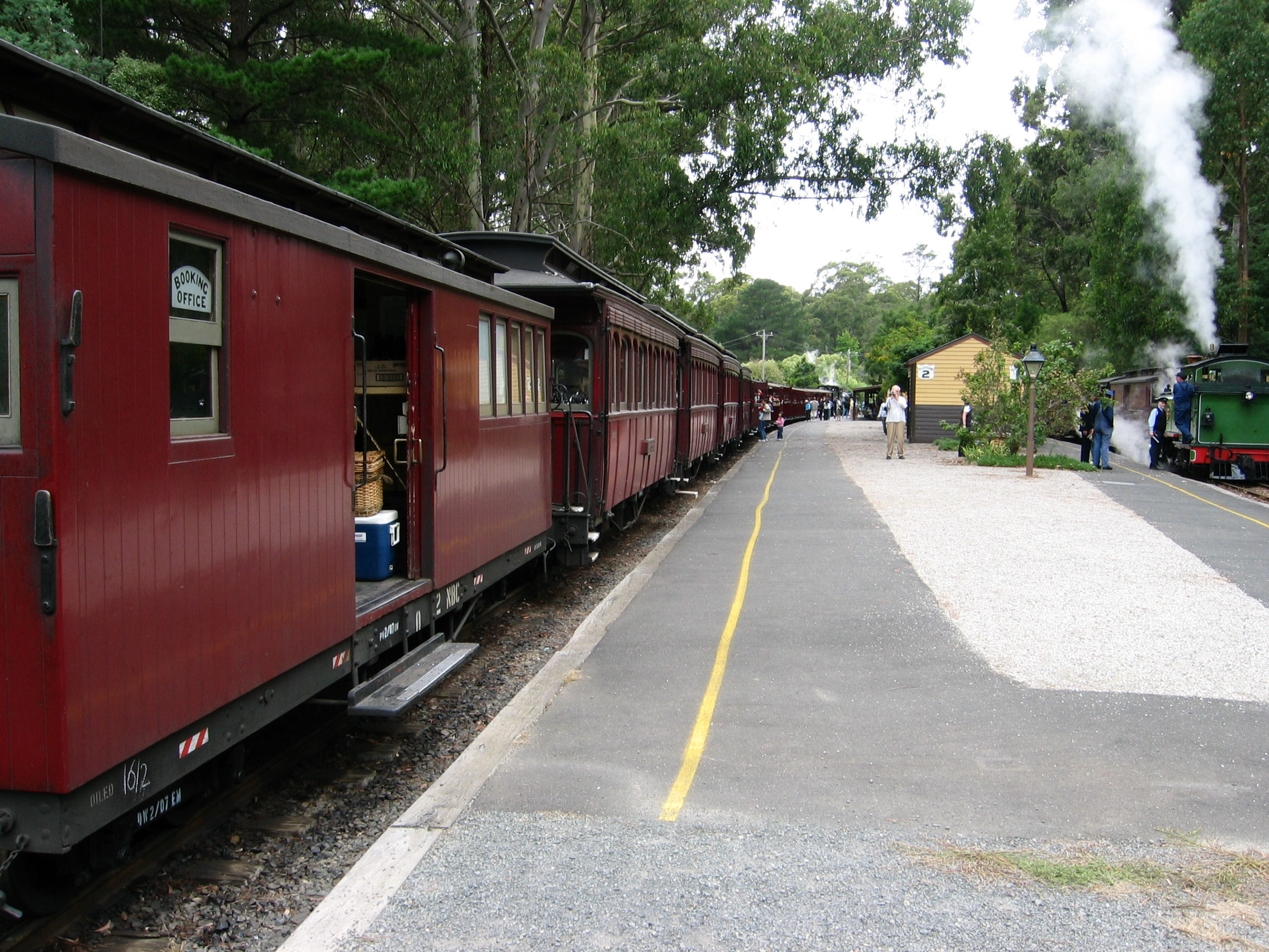 Menzies Creek railway station, Melbourne